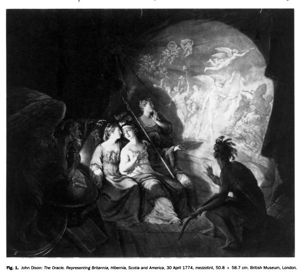 John Dixon, The Oracle